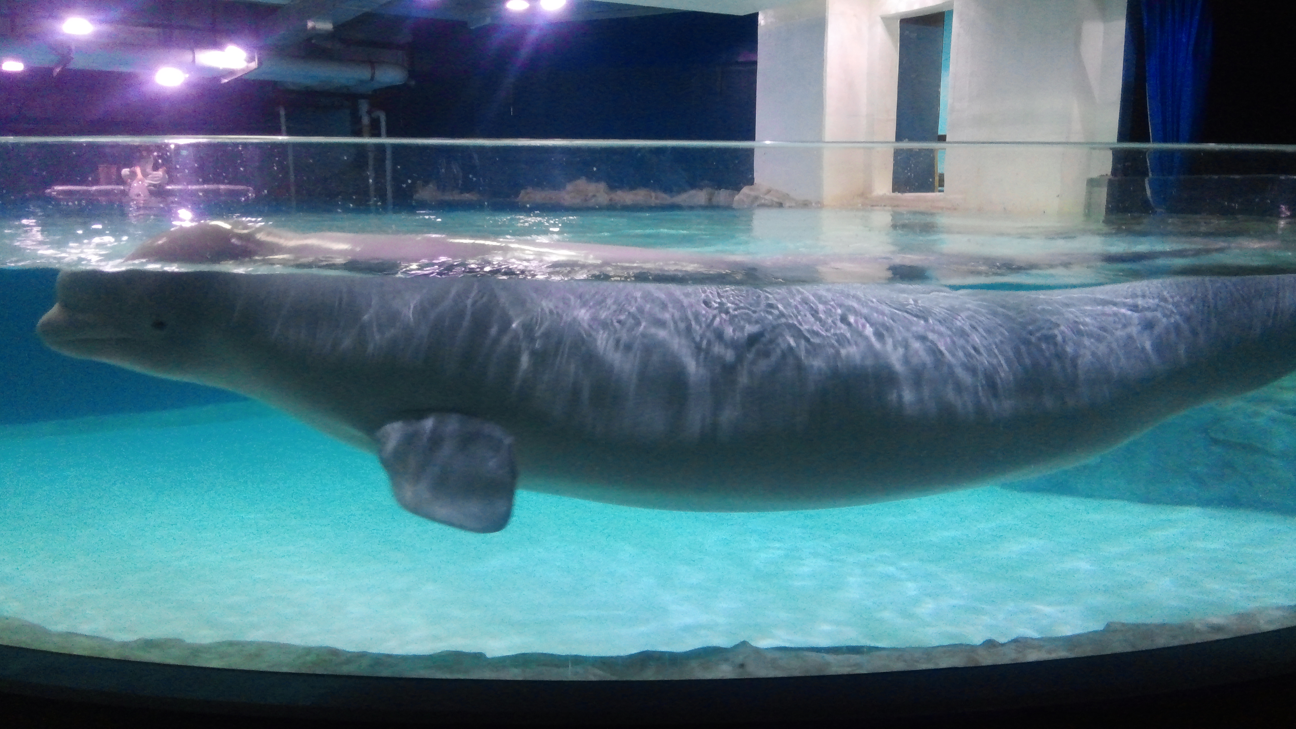 Beluga in Lotte World Aquarium